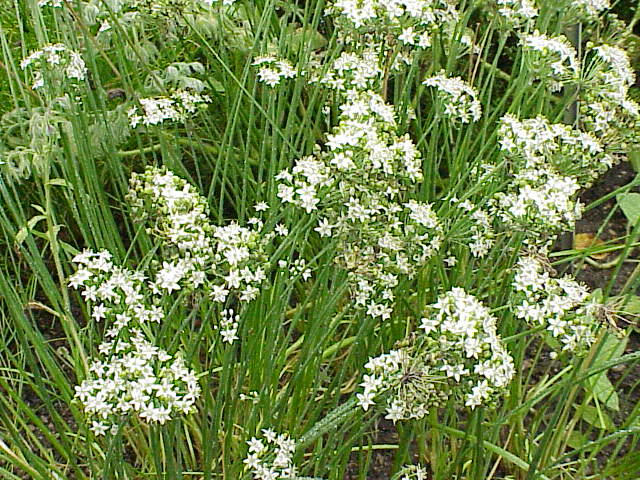 Species: Allium tuberosum Family: Alliaceae Image No. 2